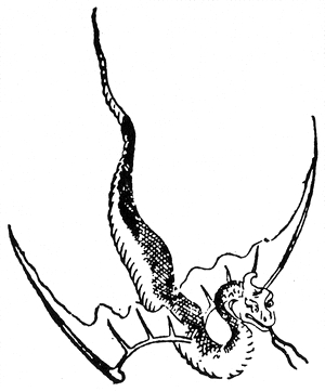 "Huà-shé" (化蛇, a legendary serpent in China) from the Shan Hai Jing (山海经, Chinese picture)